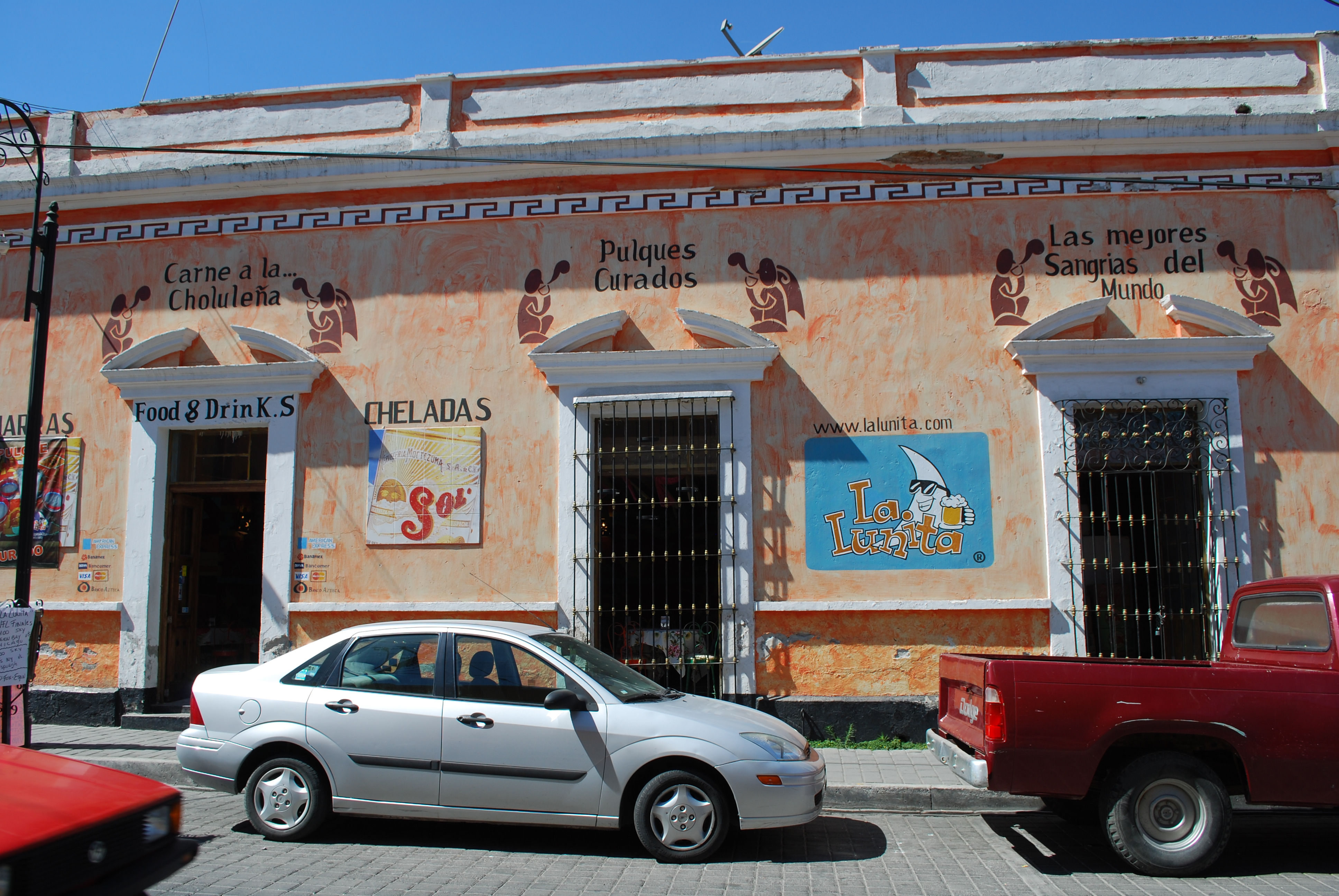 The La Lunita Bar (which advertises pulque) in Cholula, Puebla, Mexico